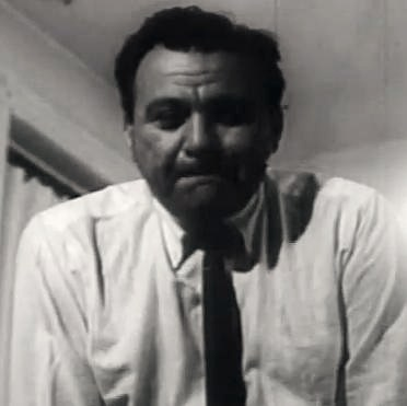 Val Avery in Satan's Bed - trailer (cropped screenshot)